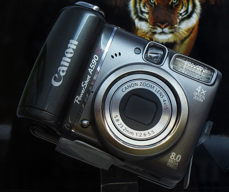 Canon PowerShot A590 IS